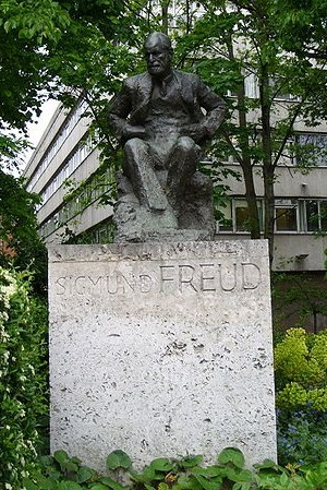 Sigmund Freud statue with Tavistock Clinic behind it - London